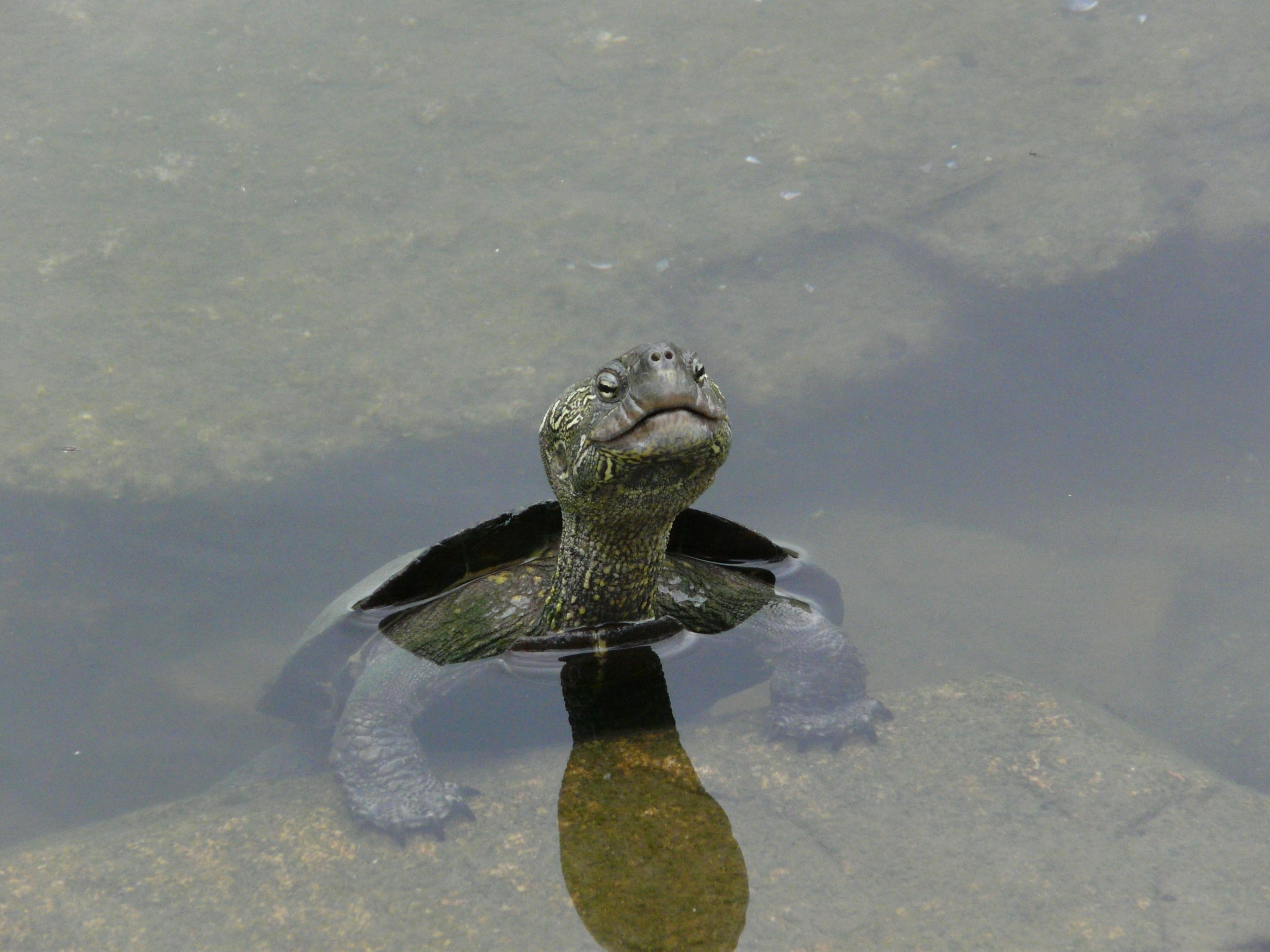 Turtle at Shukkei-en garden of Hiroshima